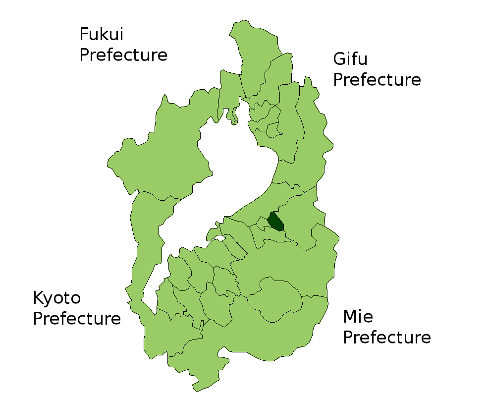 Location Map of Kora in Shiga Prefecture, Japan